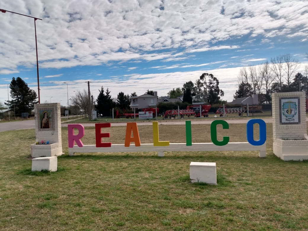 Entrada principal de Realico